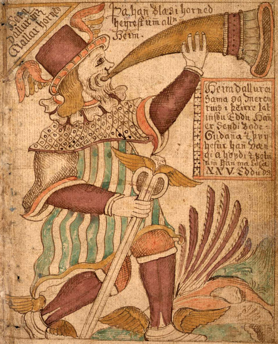 An illustration of the Norse god Heimdallr, here equated to the Roman god Mercurius, with Gjallarhorn; from an Icelandic 18th century manuscript.